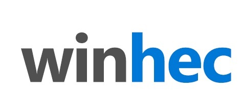 Microsoft relaunch winhec with new logo